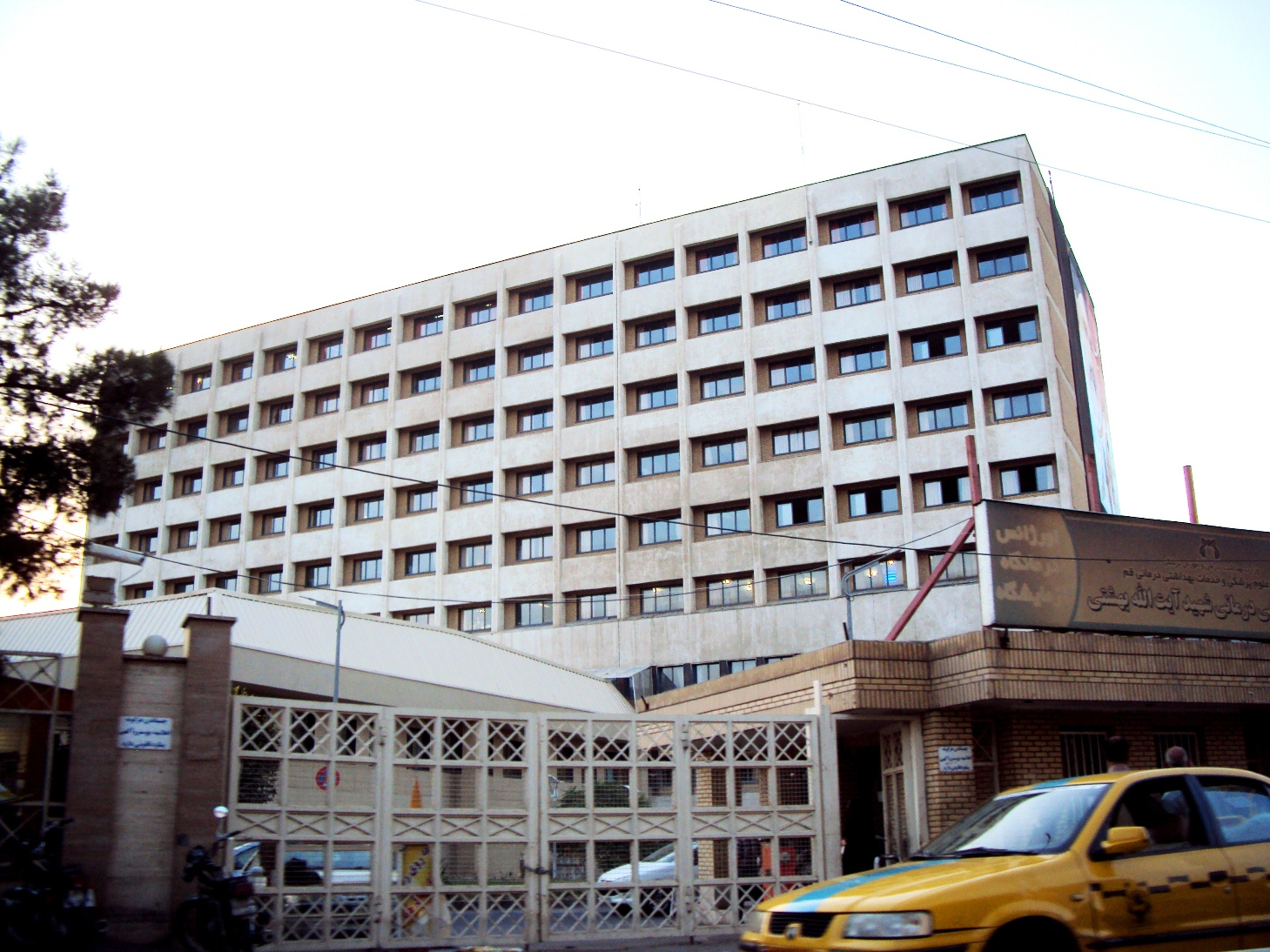 بیمارستان شهید بهشتی قم